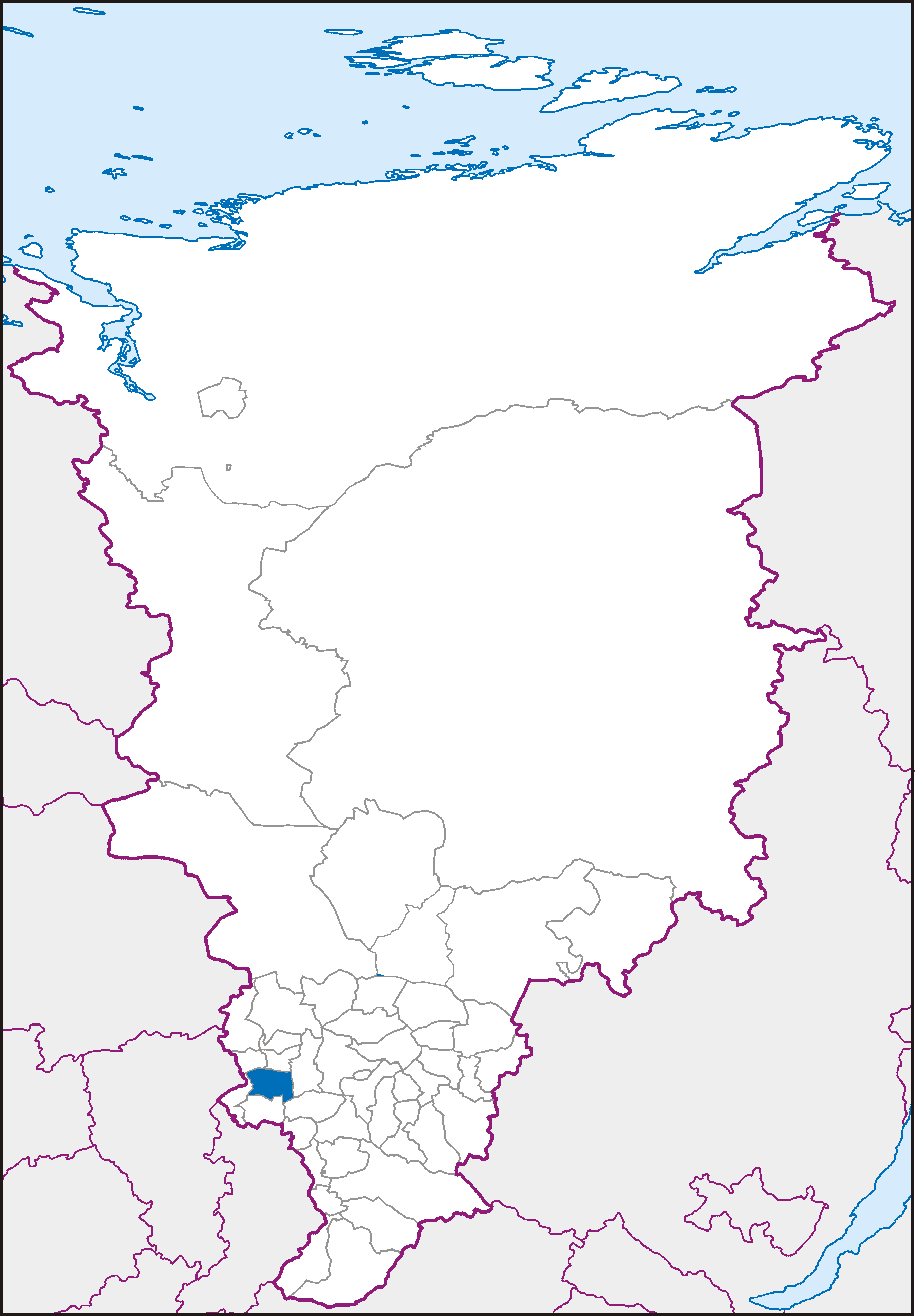 Map of Krasnoyarsk Krai in Albers Equal-Area Conic projection (Central Meridian = 95° E)